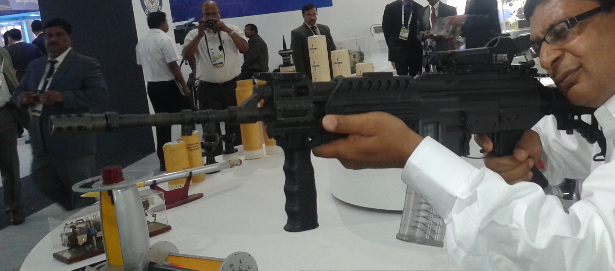 DRDO Multi Caliber Rifle